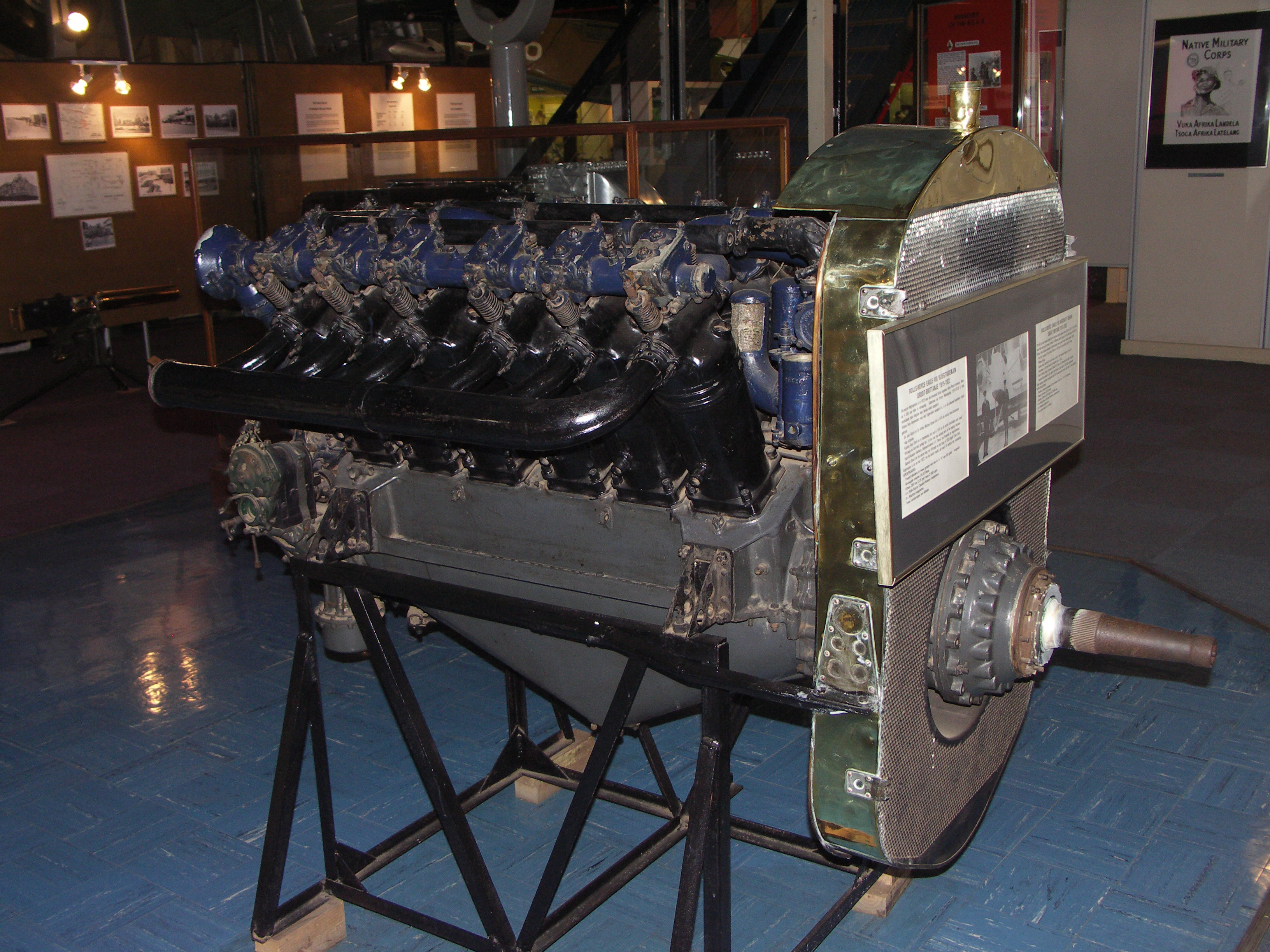 Rolls Royce Eagle VIII engine at the South African National Museum of Military History